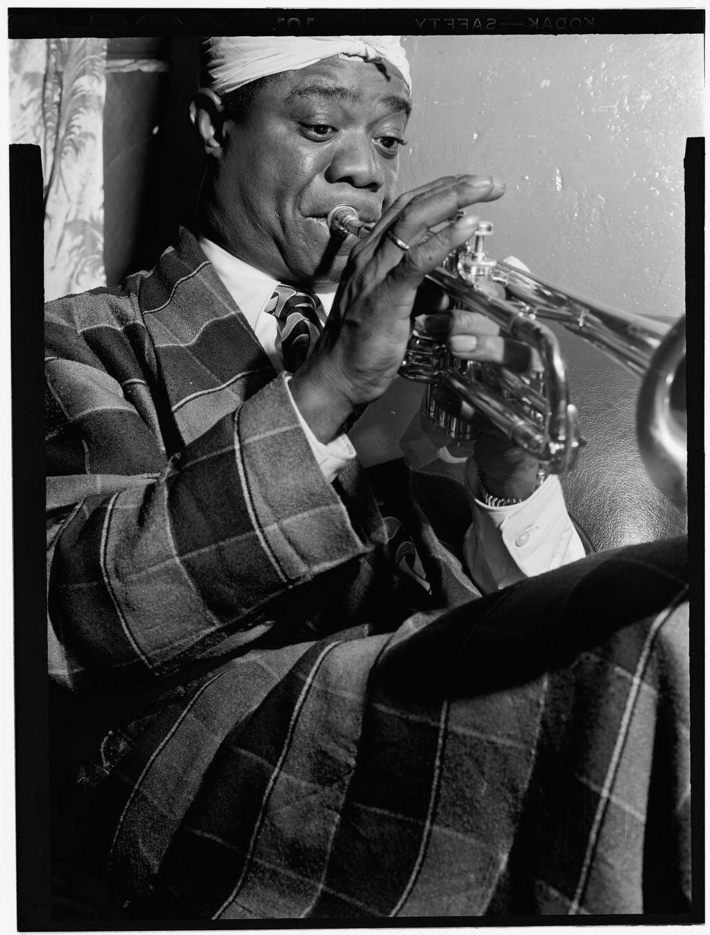 Louis Armstrong, Aquarium, New York, N.Y.